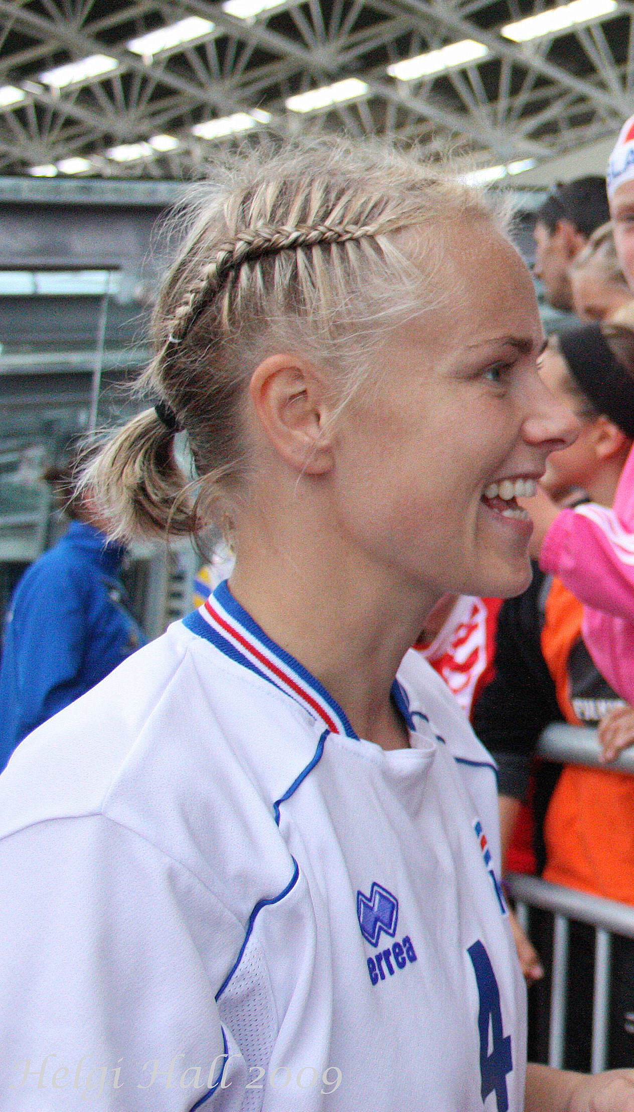 Iceland - Serbia/2011 FIFA Women's World Cup qualification UEFA Group 1